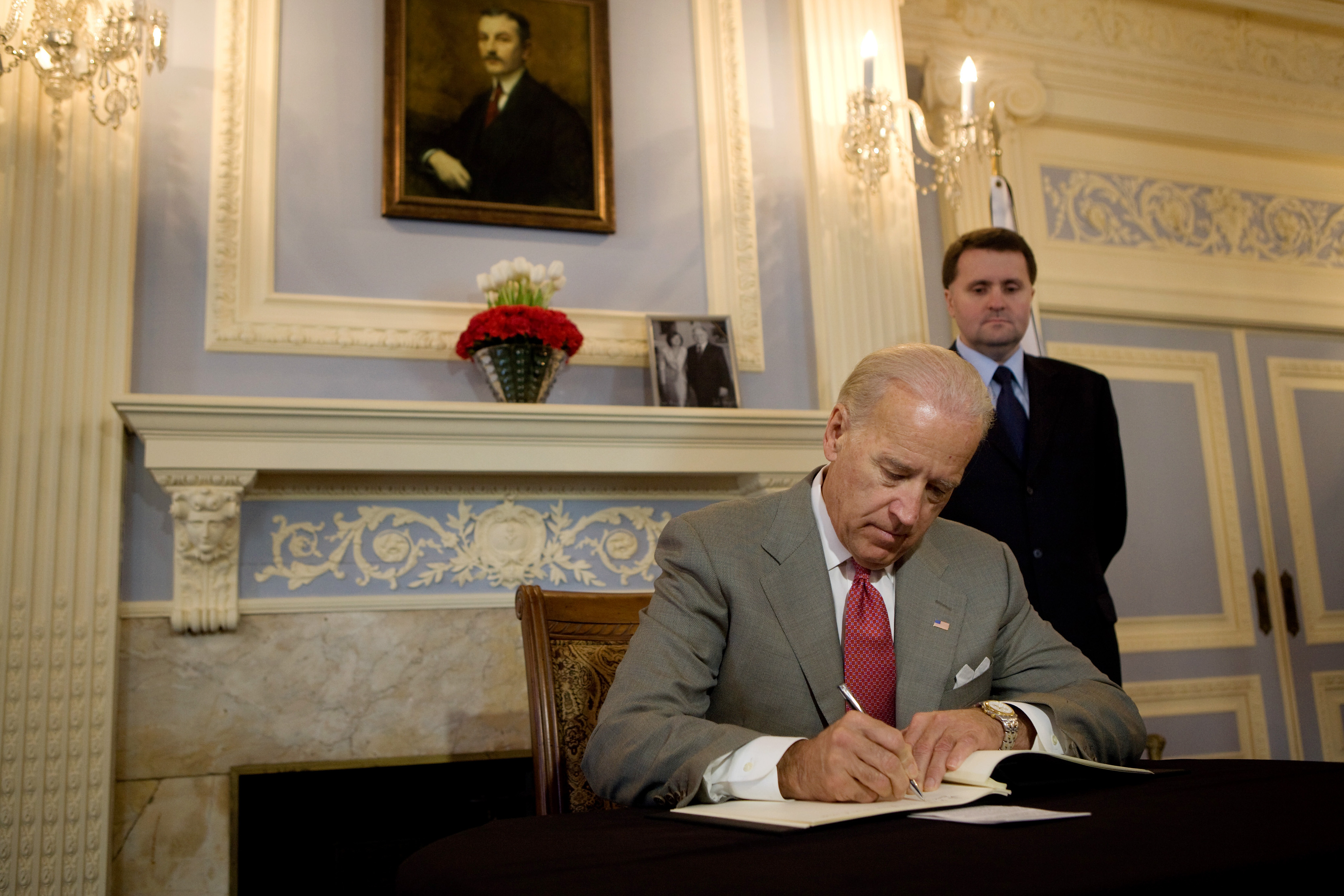 Vice President Joe Biden, flanked by Polish Ambassador to the US, Robert Kupiecki, writes a condolences message at the Polish Embassy in Washington, D.C., April 14, 2010. (Official White House Photo by David Lienemann) This official White House photograph is being made available only for publication by news organizations and/or for personal use printing by the subject(s) of the photograph. The photograph may not be manipulated in any way and may not be used in commercial or political materials, advertisements, emails, products, promotions that in any way suggests approval or endorsement of the President, the First Family, or the White House.